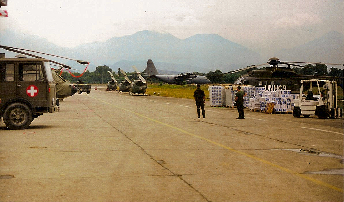 Swiss Army supporting UNHCR during 1999 Kosovo War in Albania: Swisscamp at Tirana Airport